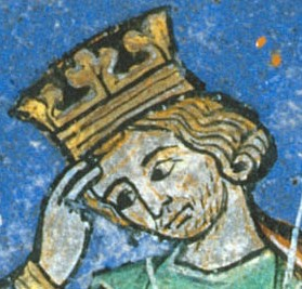 Foulques V of Anjou